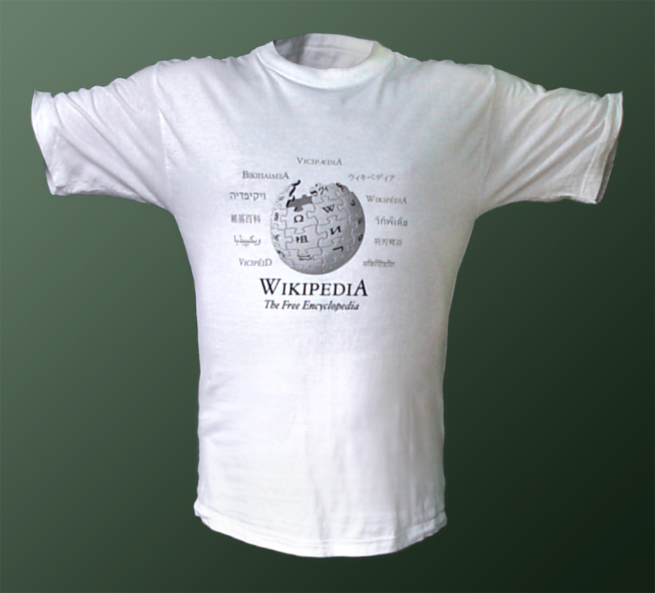 T-shirt with Wikipedia logo